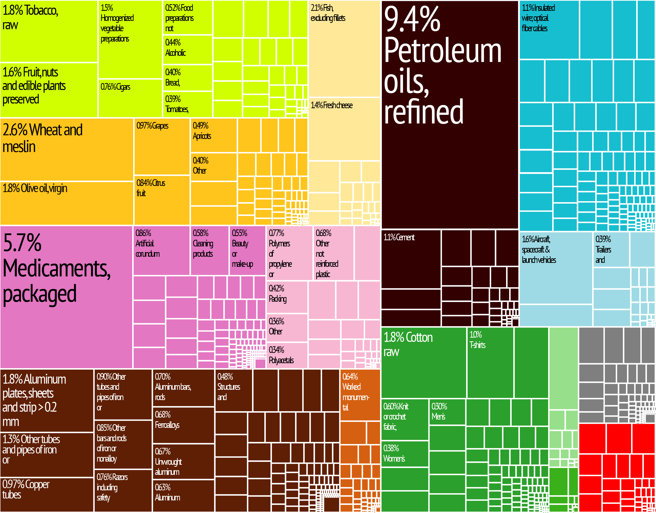 Greece Export Treemap from MIT Harvard Economic Complexity Observatory